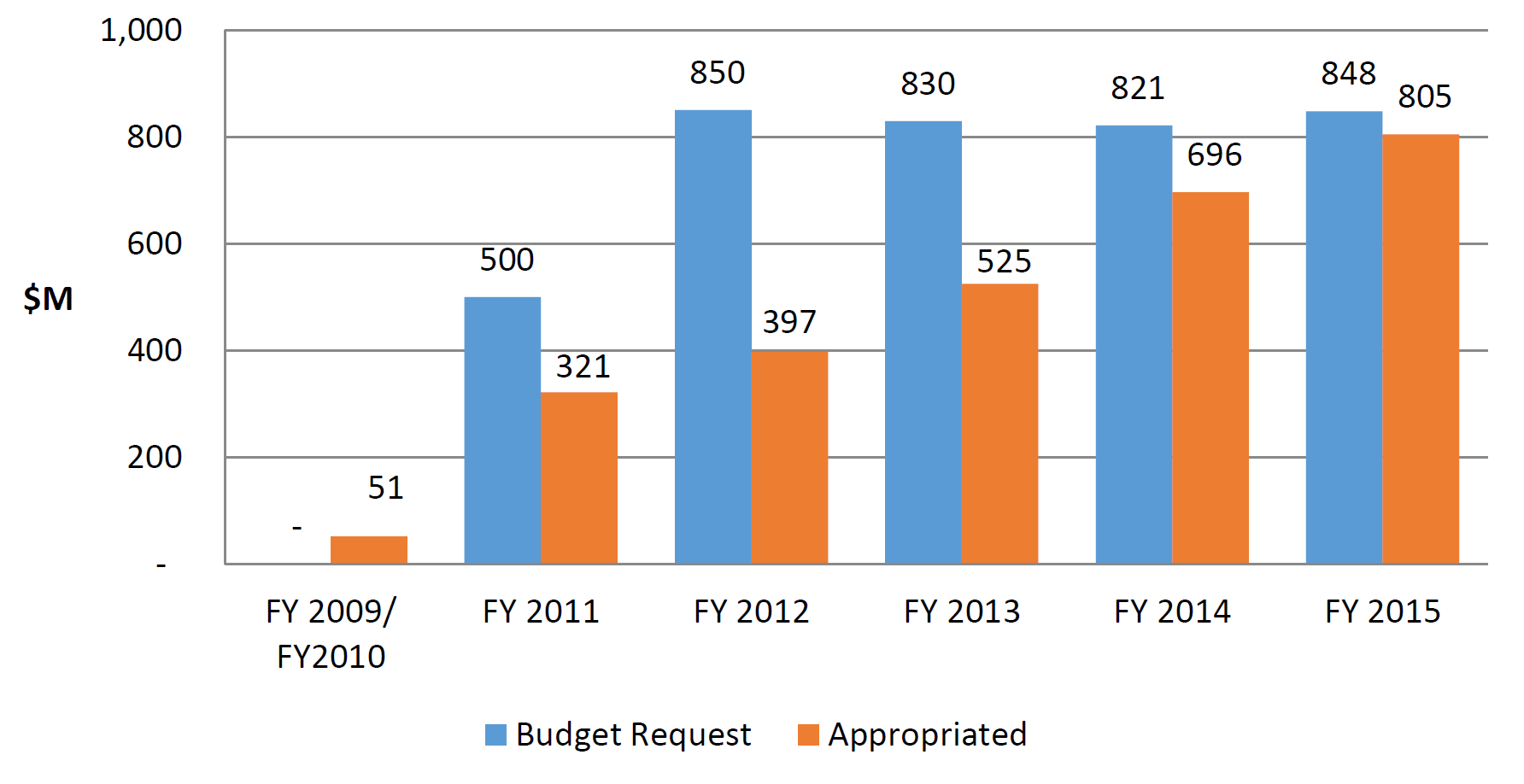 None.